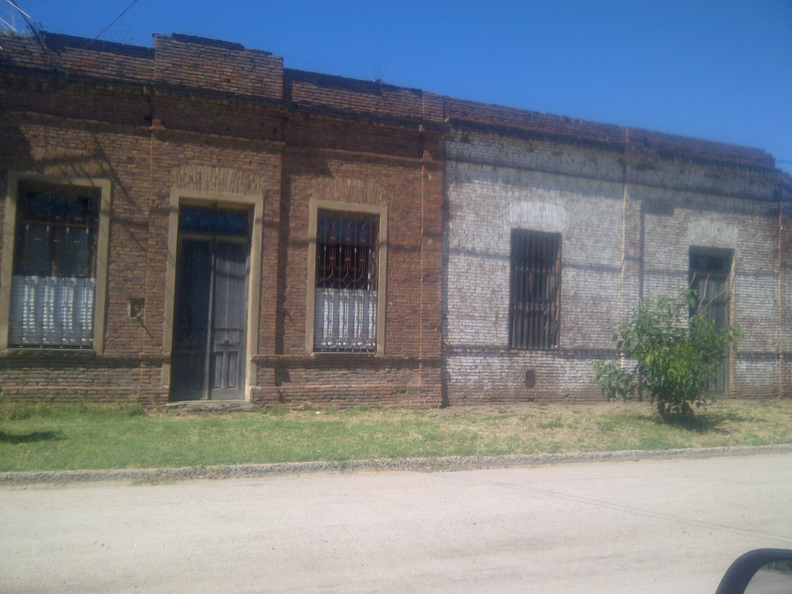 façade of an old property in Cavanagh, Argentina.